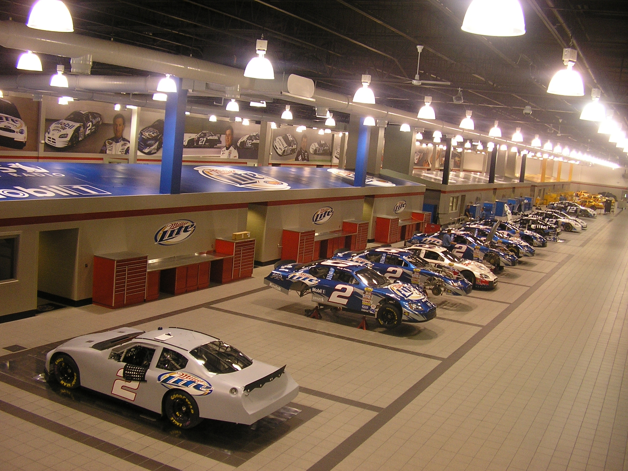 The Penske Racing garage in Mooresville, North Carolina.